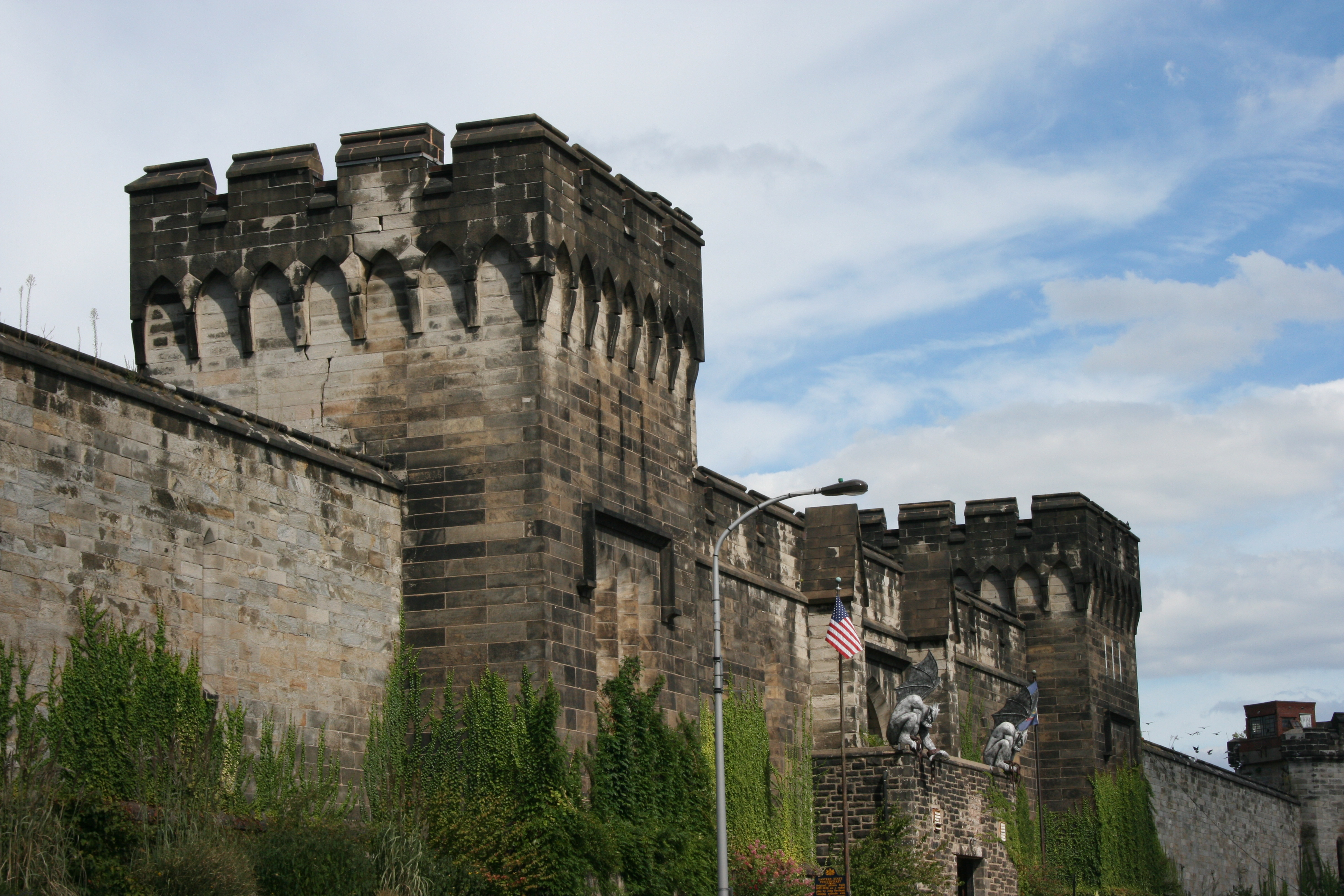 Philadelphia's Eastern State Penitentiary. Main gate.